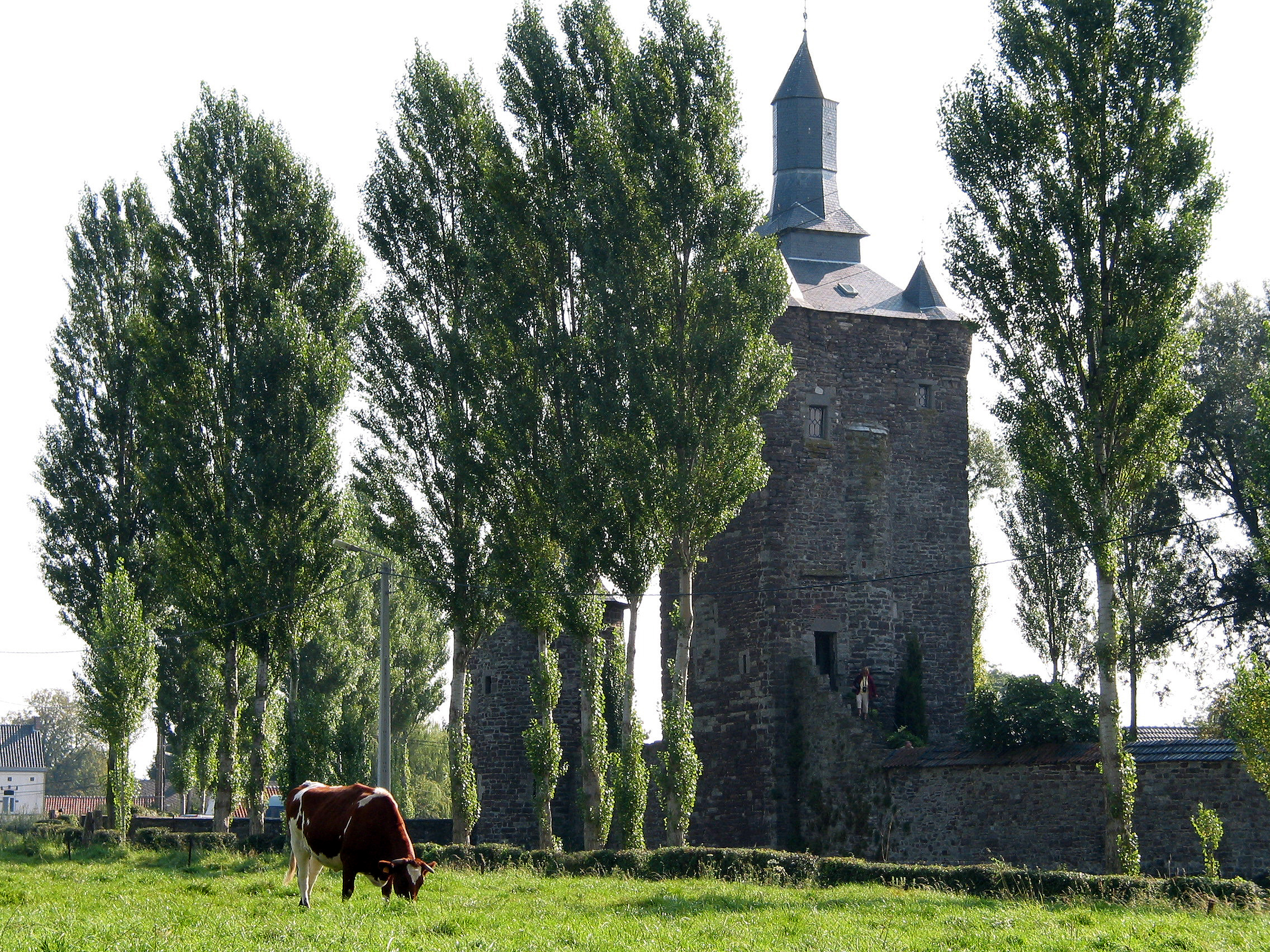 Sombreffe (Belgium), the castle (XIII-XVth centuries)